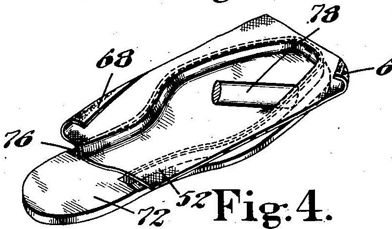 This is a drawing from the US patent involved in the case that this article, B.B. Chemical Co. v. Ellis, describes Other information Patent drawing